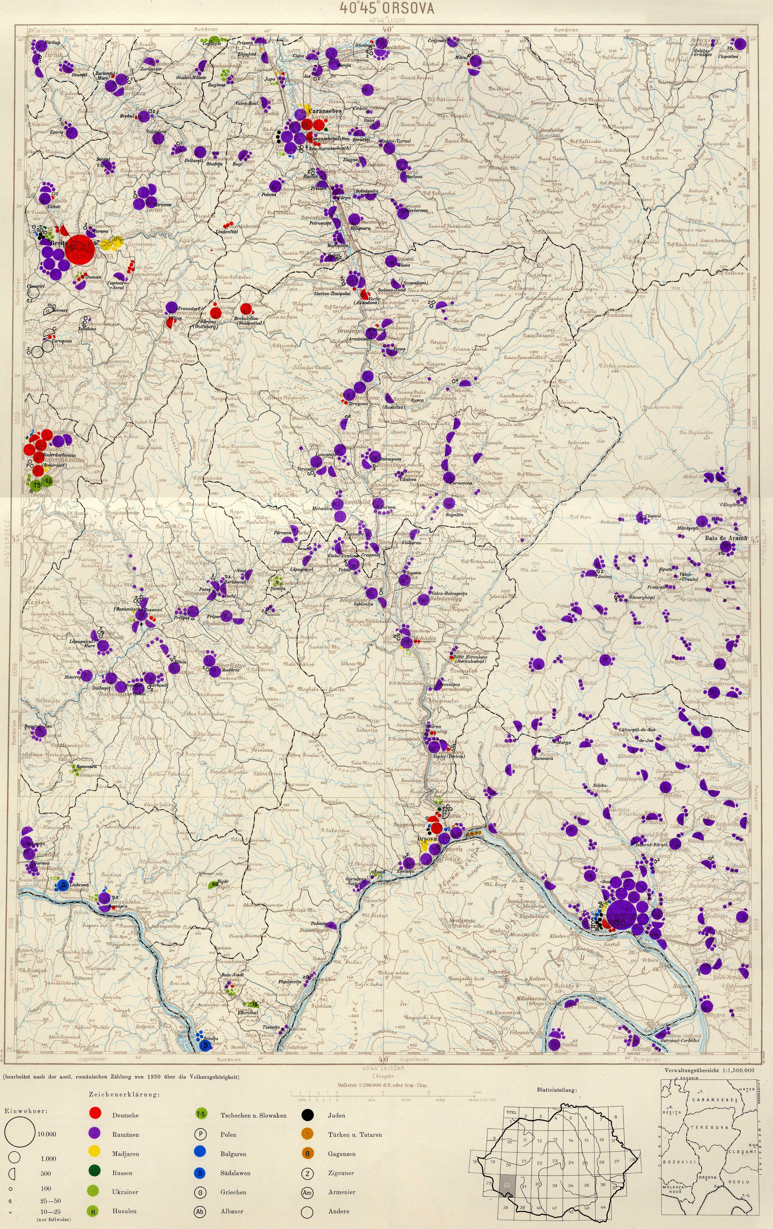 Ethnic map (of this map) according to the Romanian census 1930.